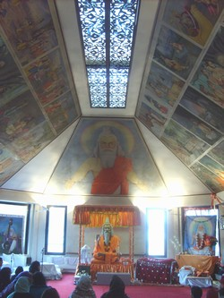 Balmiki Ashram. Balmiki (Sanskrit: वाल्मीकि, vālmīki Panjabi: ਬਾਲਮੀਕਿ ) is a Hindu denomination whose members revere Valmiki as the avatar of God. It is practiced by some Dalit or Harijan communities in the Indian state of Punjab, India and also in Pakistan.